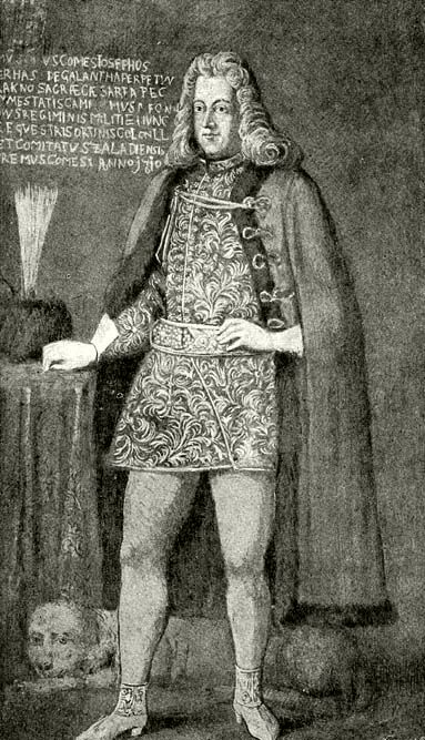 Joseph I, prince Esterhazy